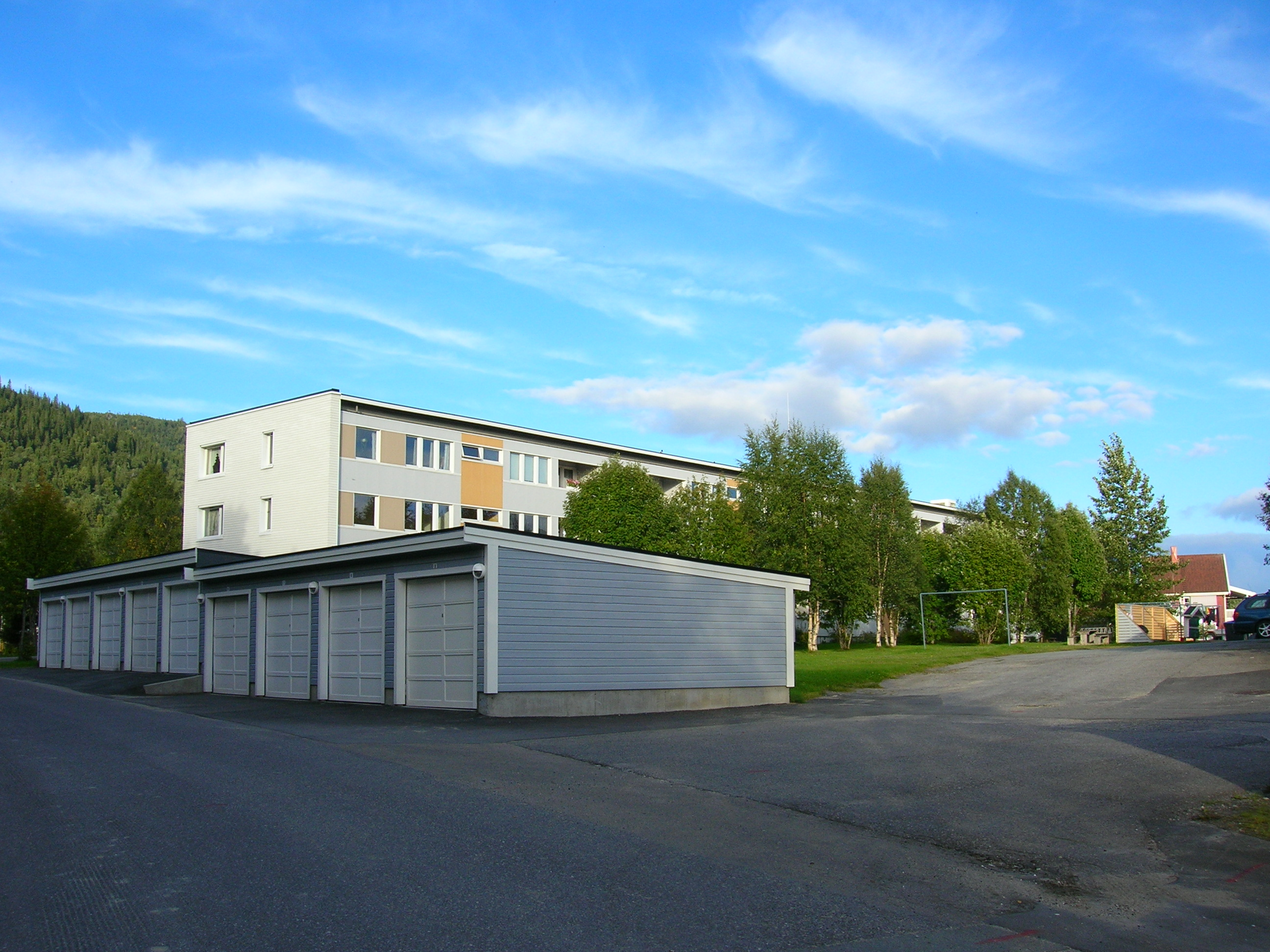 Elgveien housing cooperative on Selfors, north of Mo i Rana, Rana municipality, county of Nordland, Norway, Photo 4 September, 2007 with a Nikon Coolpix 5600 5,1 Megapixel camera.